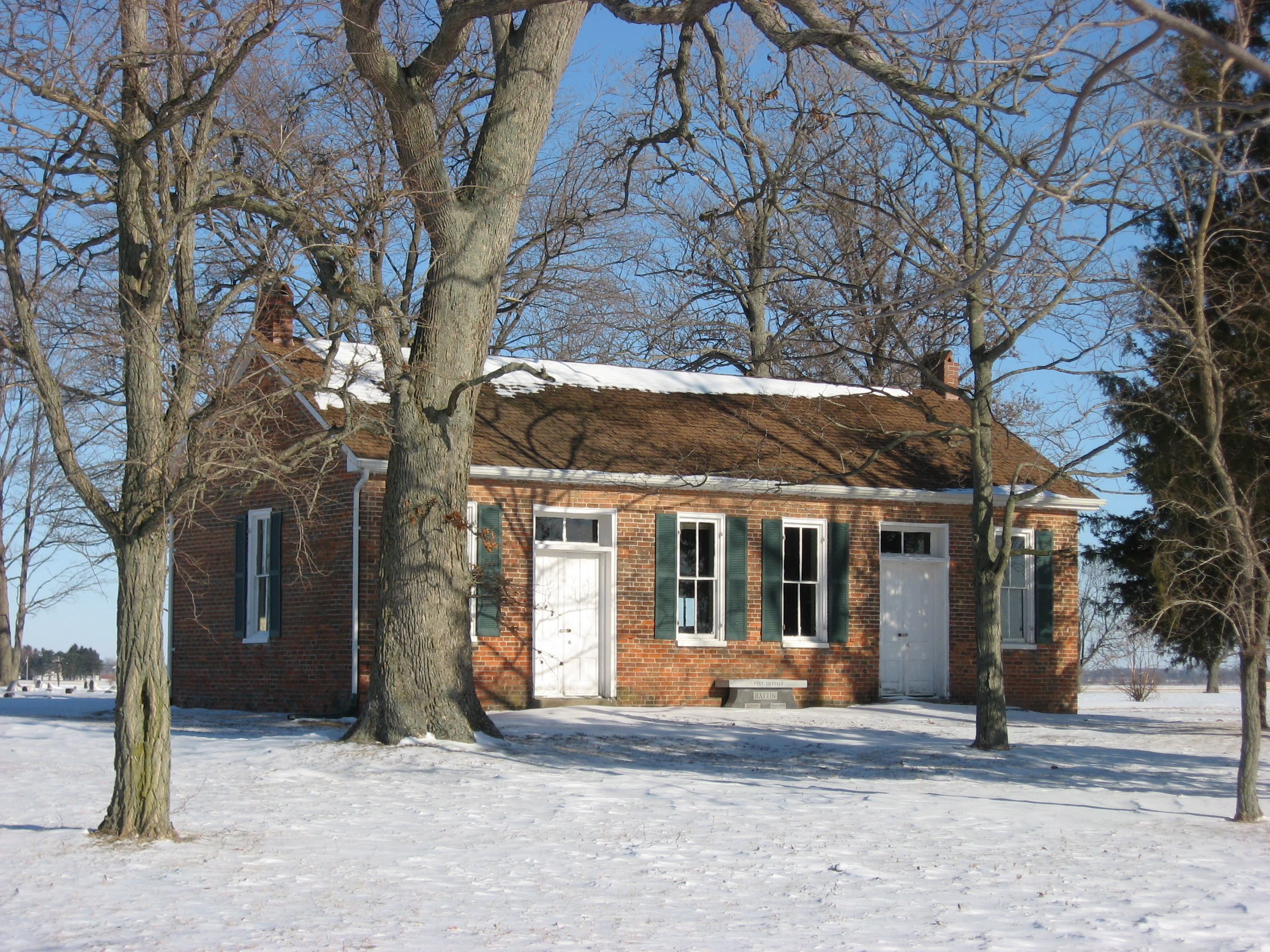 Front and western side of the Green Plain Monthly Meetinghouse, located along the South Charleston-Clifton Road southwest of South Charleston in Madison Township, Clark County, Ohio, United States. Built in 1843, the meeting house and its cemetery are listed together on the National Register of Historic Places.